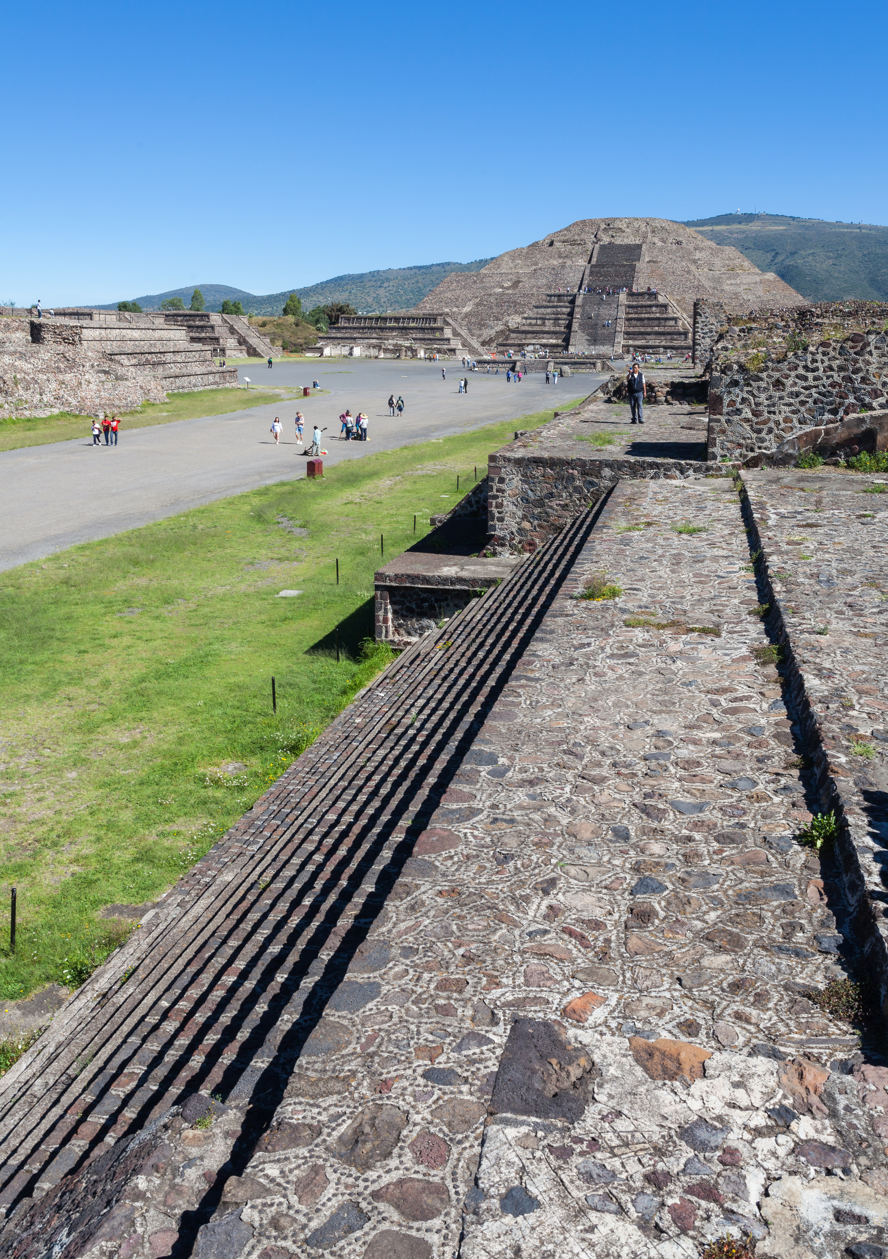 Avenue of the Dead, Teotihuacán, Mexico